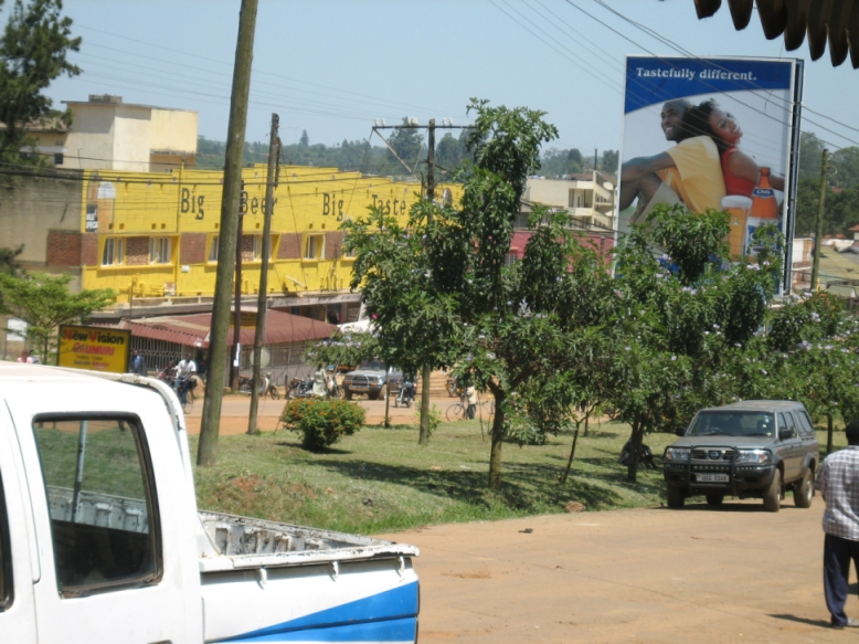 View onto the north-to-south running Kasese Road in Fort Portal (Uganda)